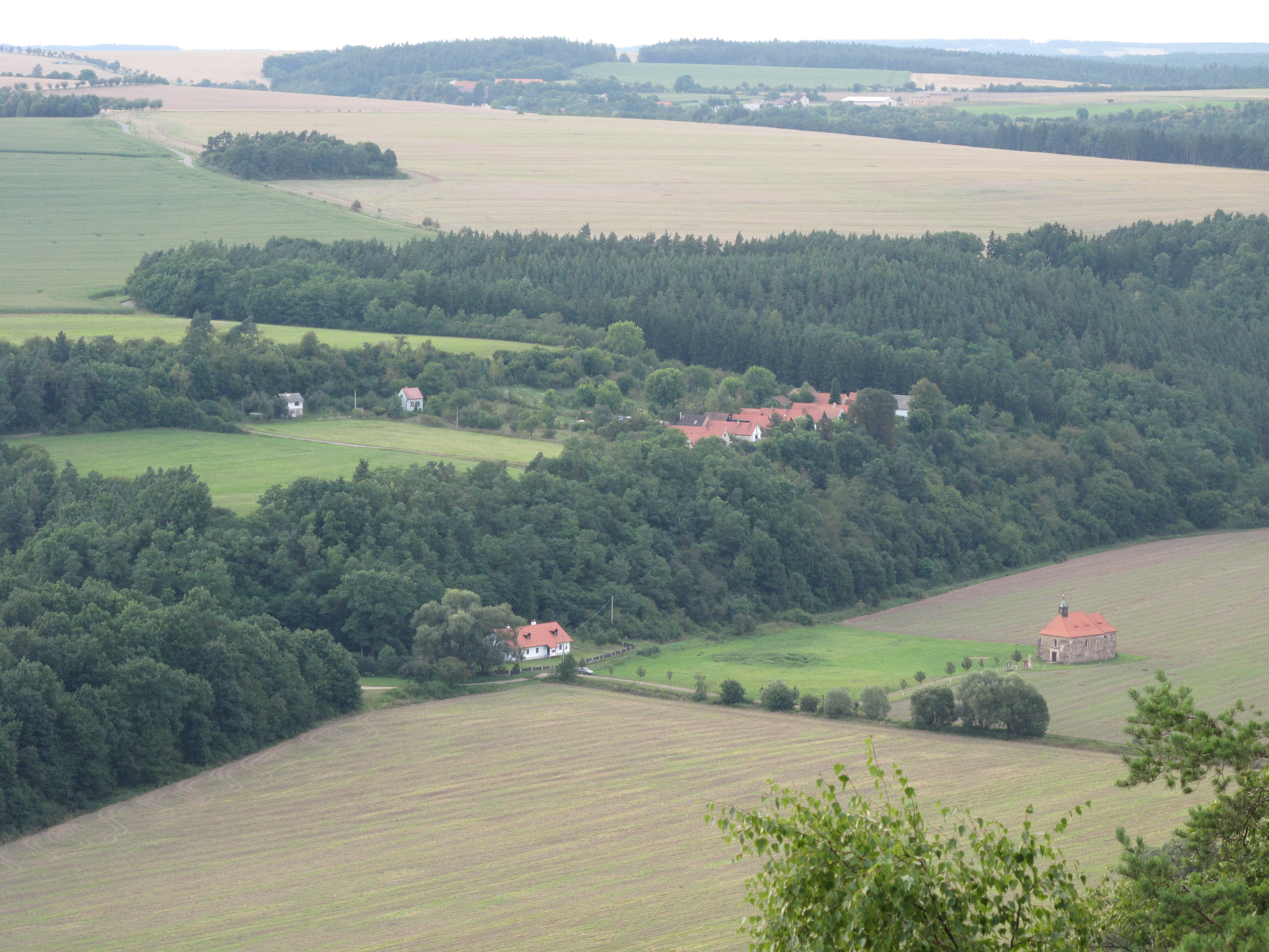 Local part called Dolany as seen from the view at Chlum, Pilsen-north District, Czech Republic.